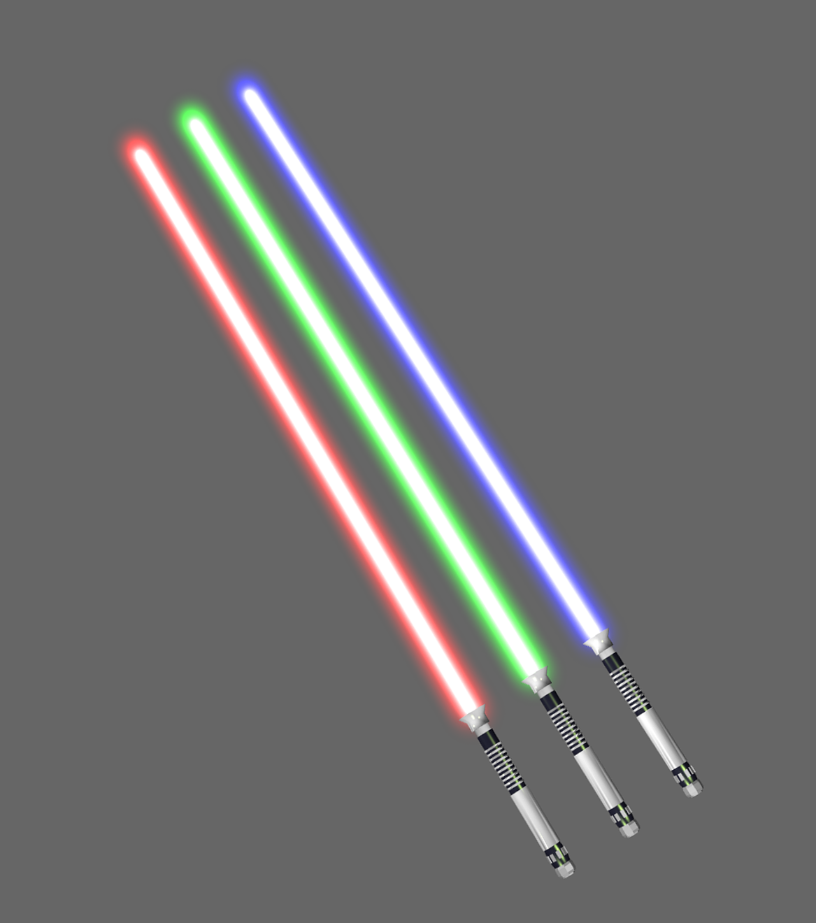 Different colors of lightsabers used in the original Star Wars trilogy.